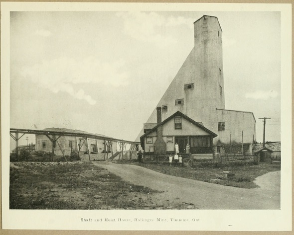 Photograph of Hollinger Mine, Timmins Ontario, early 1900s